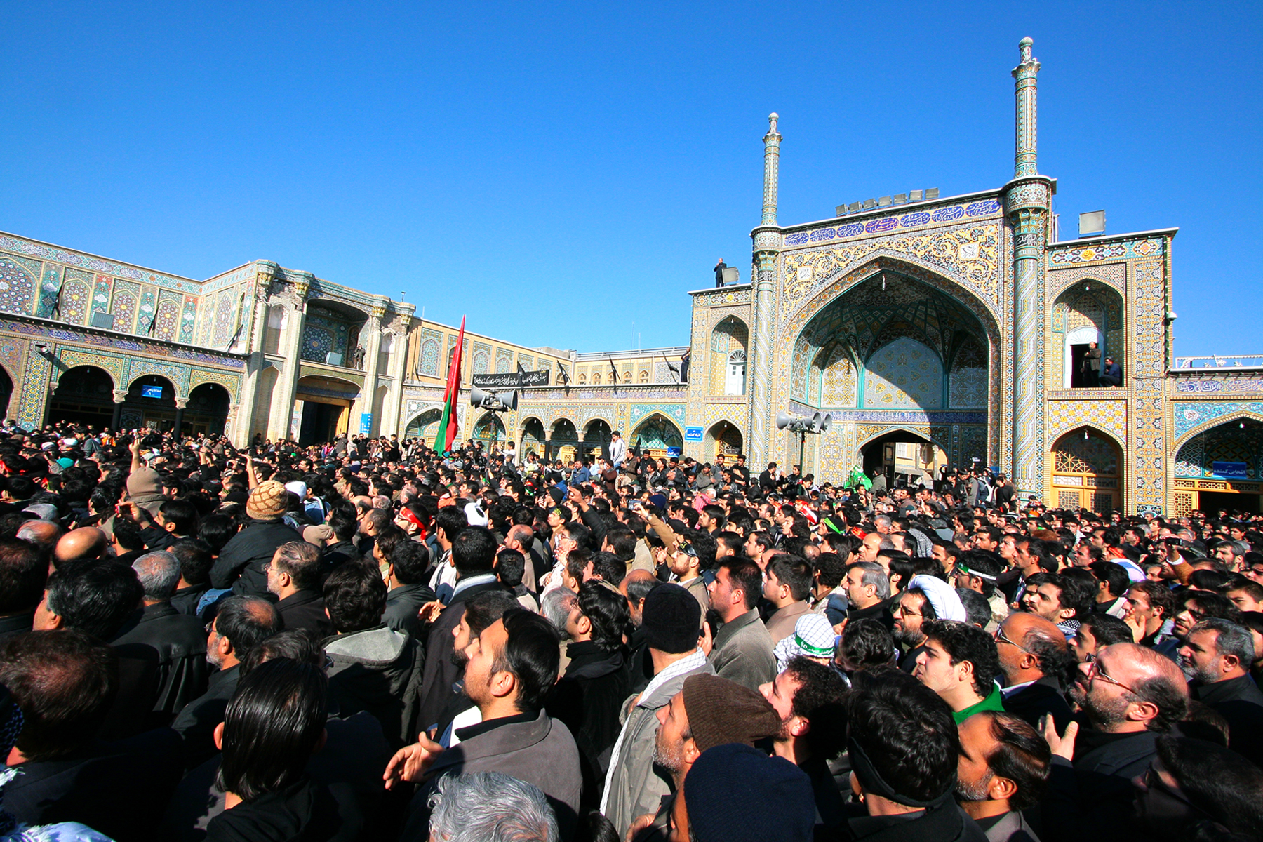 Mourning of Muharram